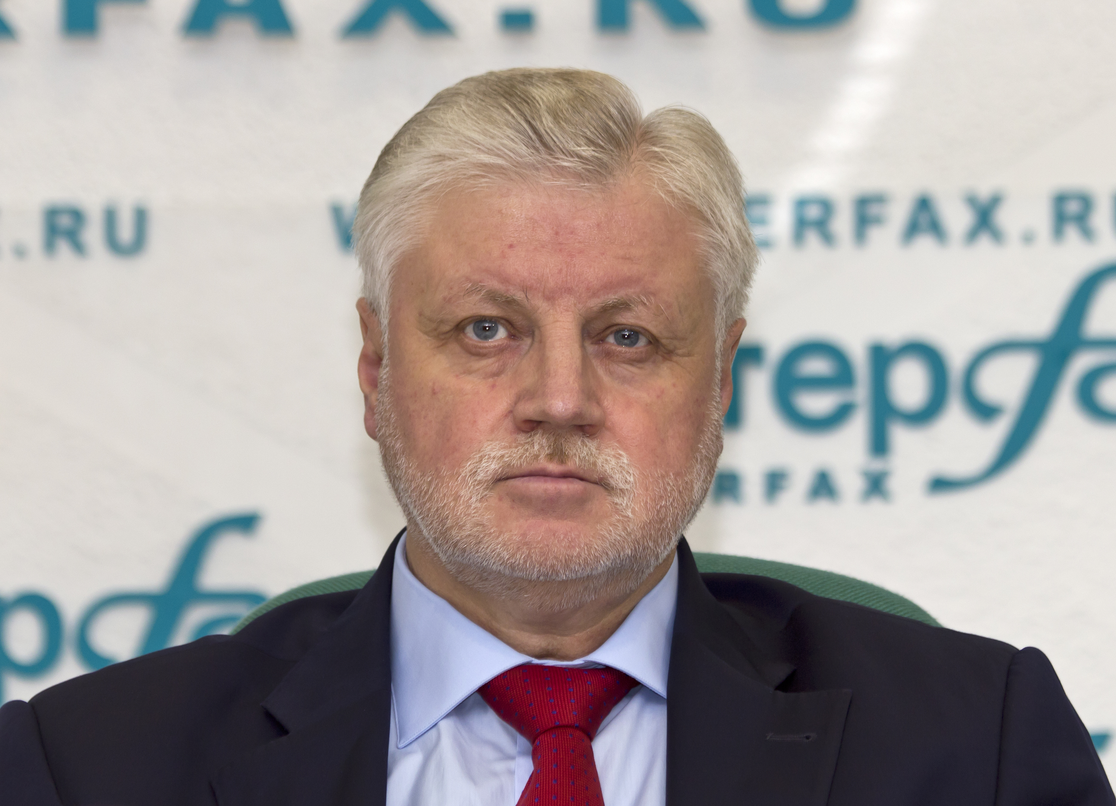 Sergey Mironov, Russian politician. Taken at Press center of Interfax, Moscow.